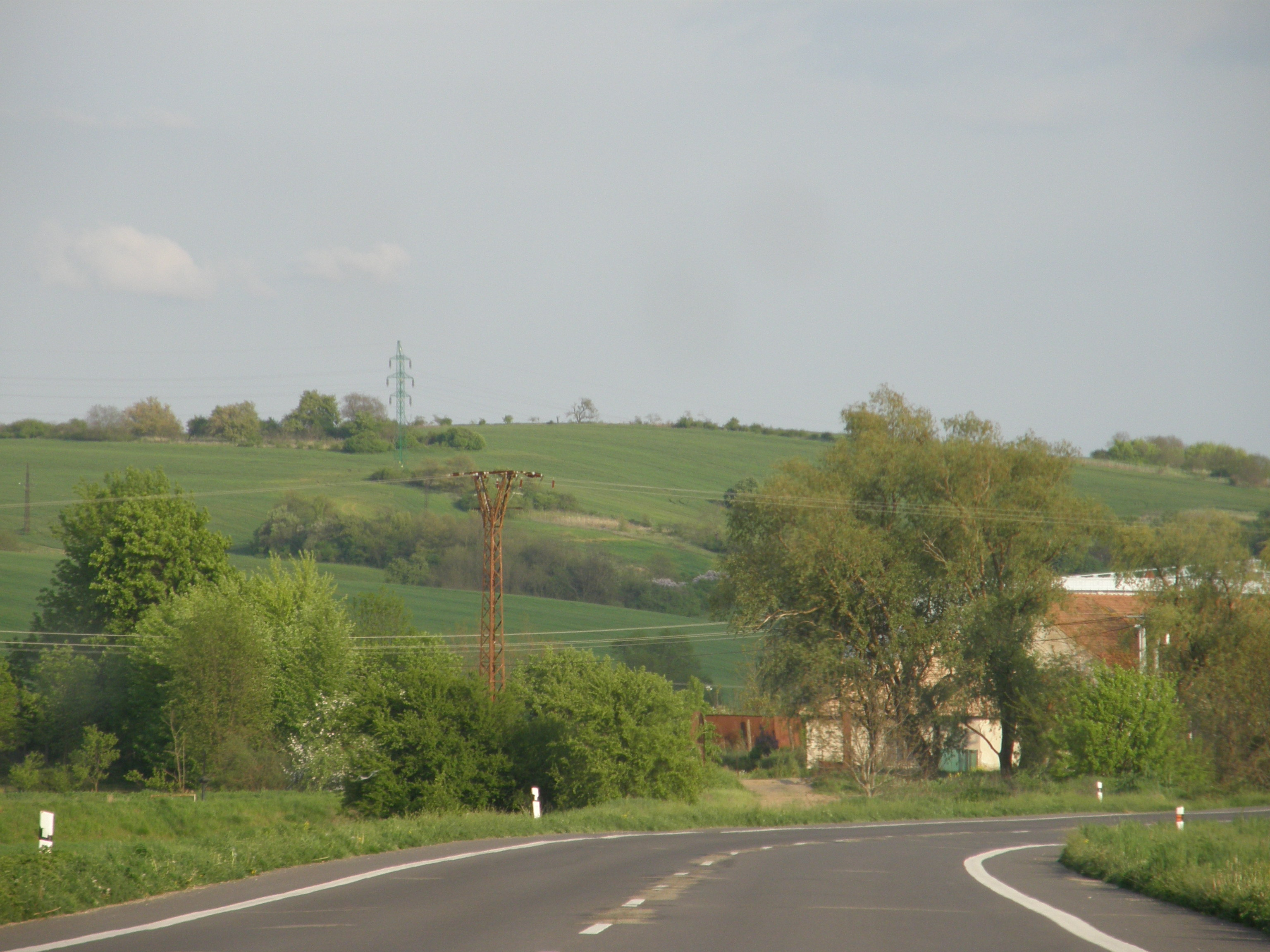 Road I/66 - Slovakia